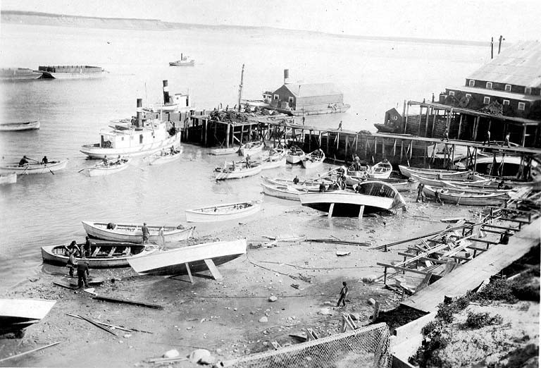 From John Cobb field notebook: The end of the season at A.P.A. cannery, Naknek, Alaska, Aug. 1906 Subjects (LCTGM): Piers & wharves--Alaska--Naknek; Fishing industry--Alaska--Naknek; Fishing boats--Alaska--Naknek Subjects (LCSH): Alaska Packers Association; Salmon canning industry--Alaska--Naknek; Salmon fisheries--Alaska--Naknek; Docks--Alaska--Naknek